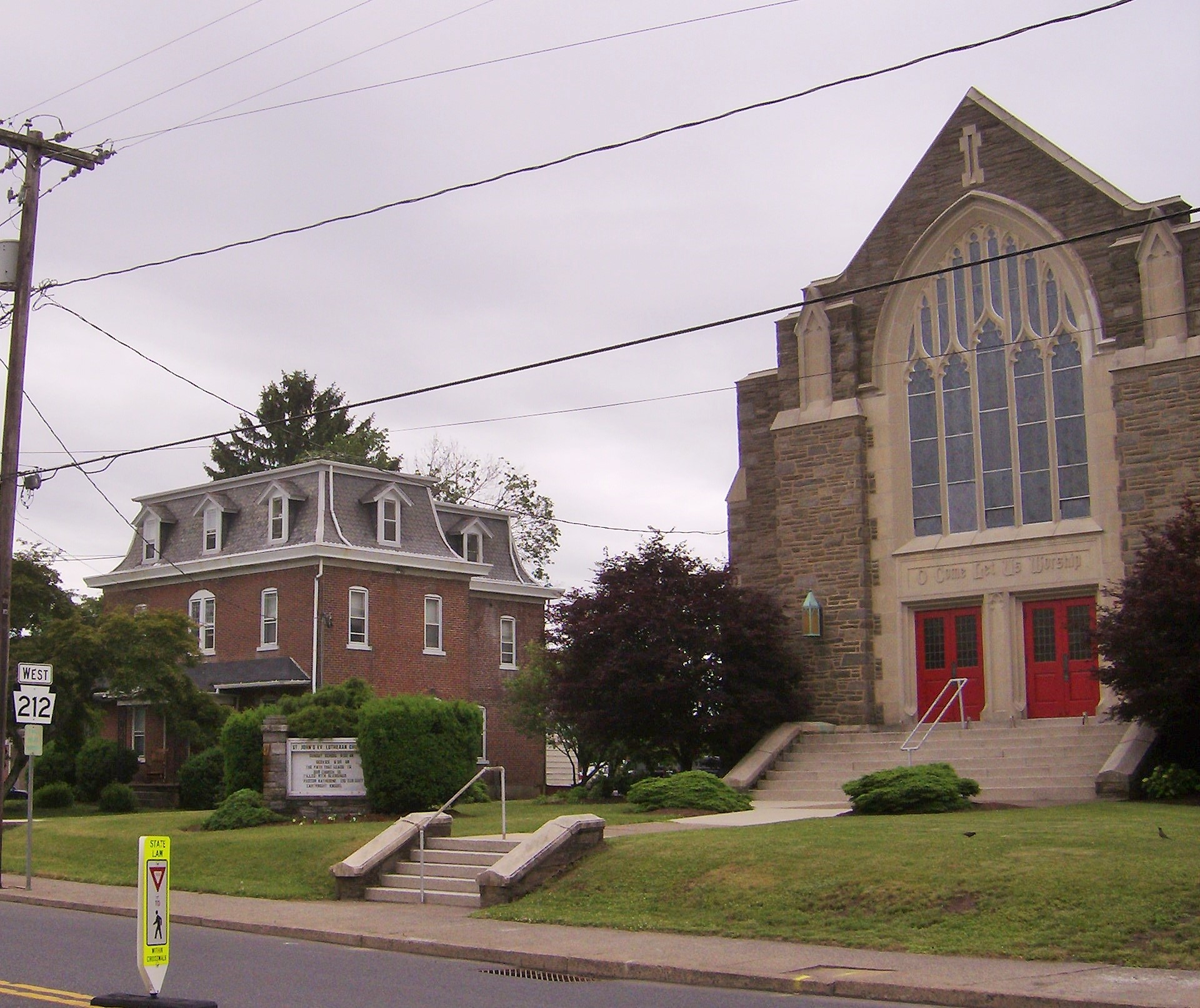 St. John's Lutheran Church, Richlandtown, Pennsylvania